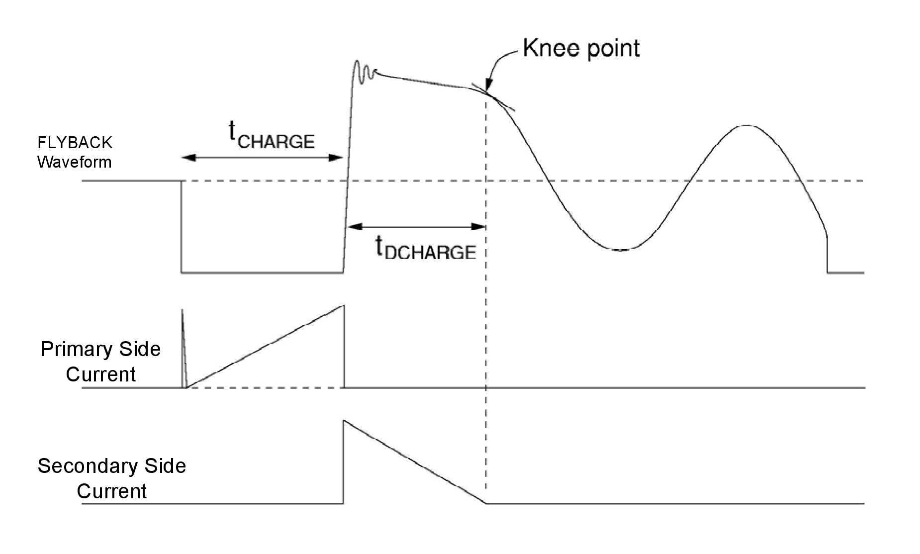 Flyback converter waveform - using primary side sensing techniques - showing the 'knee point' which allows a more accurate measurement of what is happening on the second side.